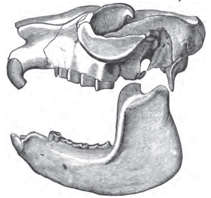 Skull of Mesotherium cristatum